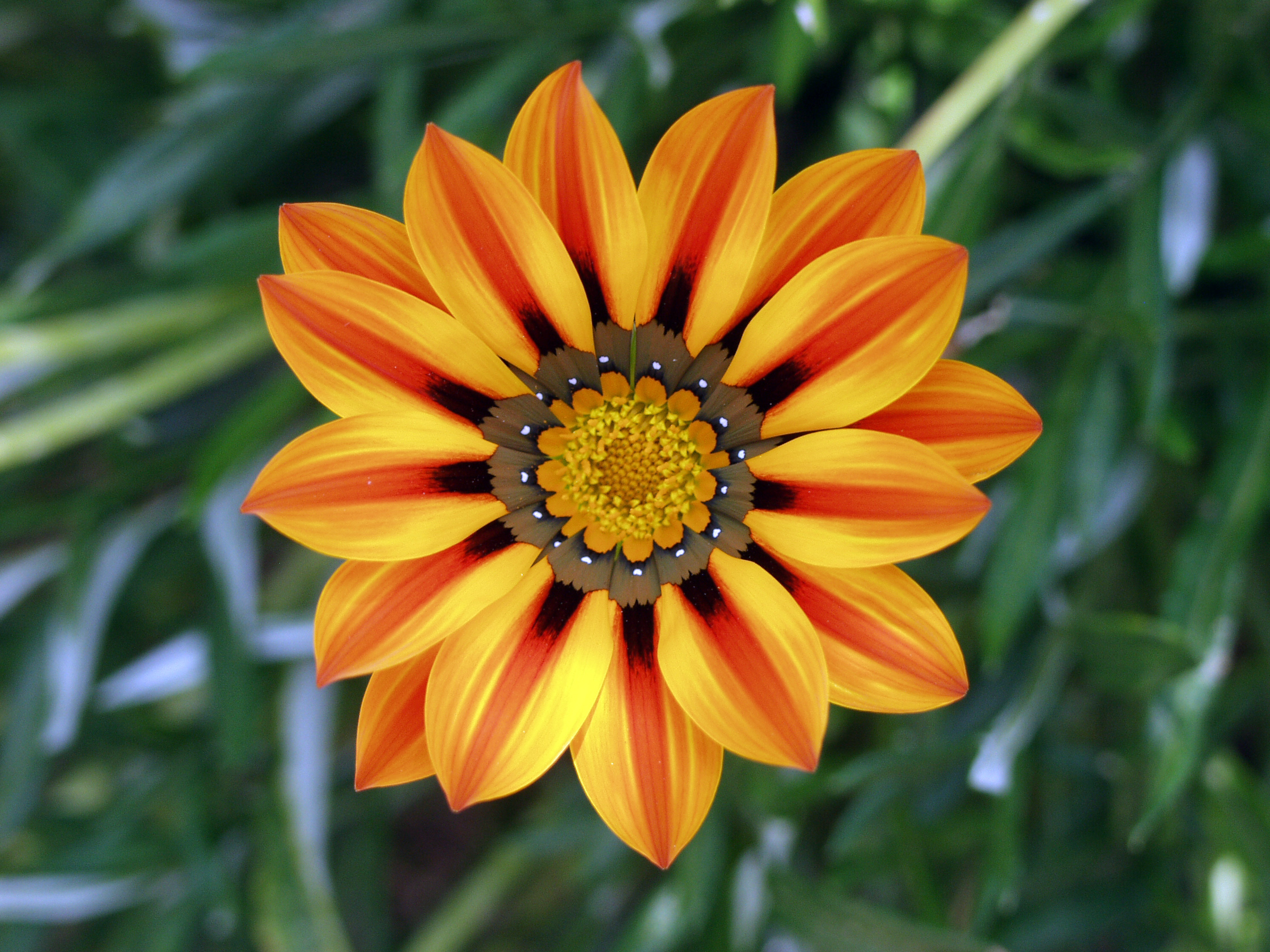 A bright orange Gazania flower in full bloom.